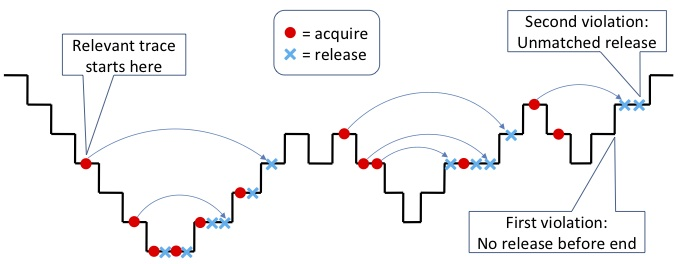 This is a pictorial representation of a trace which causes multiple violations of the SafeLock property.